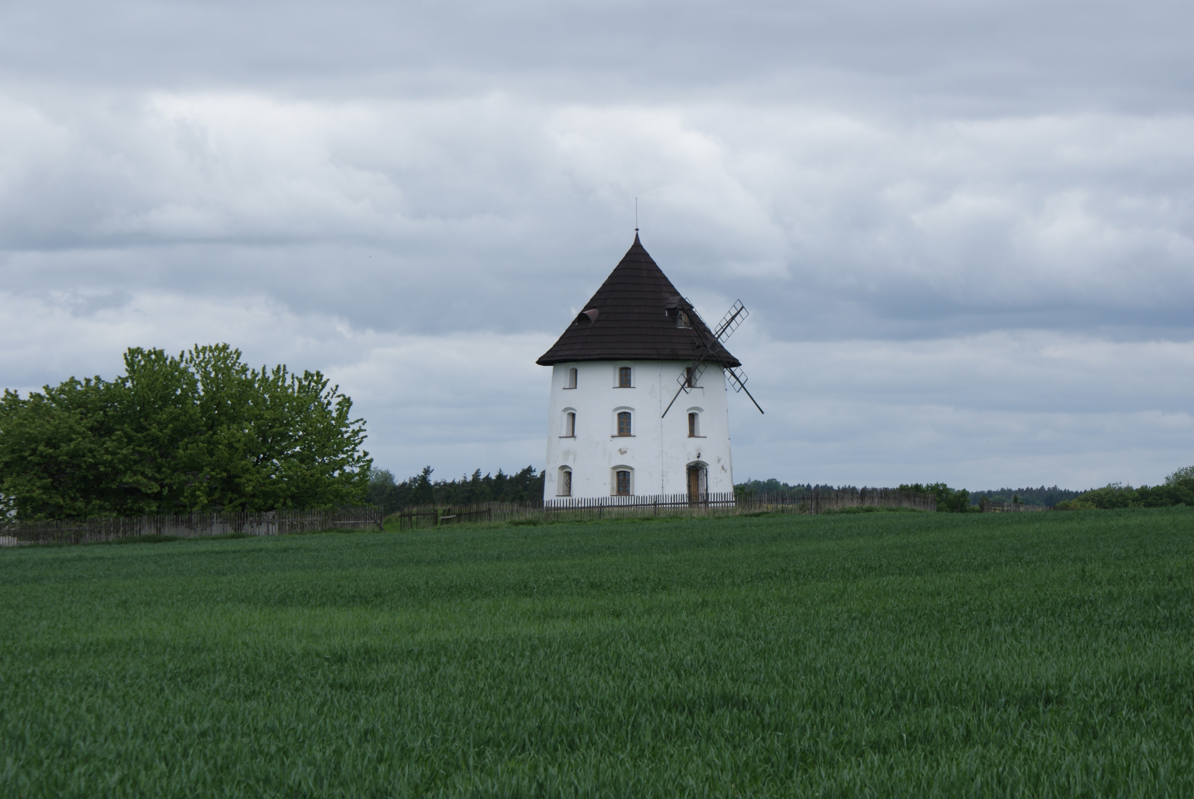 Windmill in Vrátno, Mladá Boleslav district, Czech Republic.